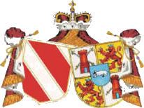 Coats of arms of Schönburg-Glauchau (left) and Thurn and Taxis (right)